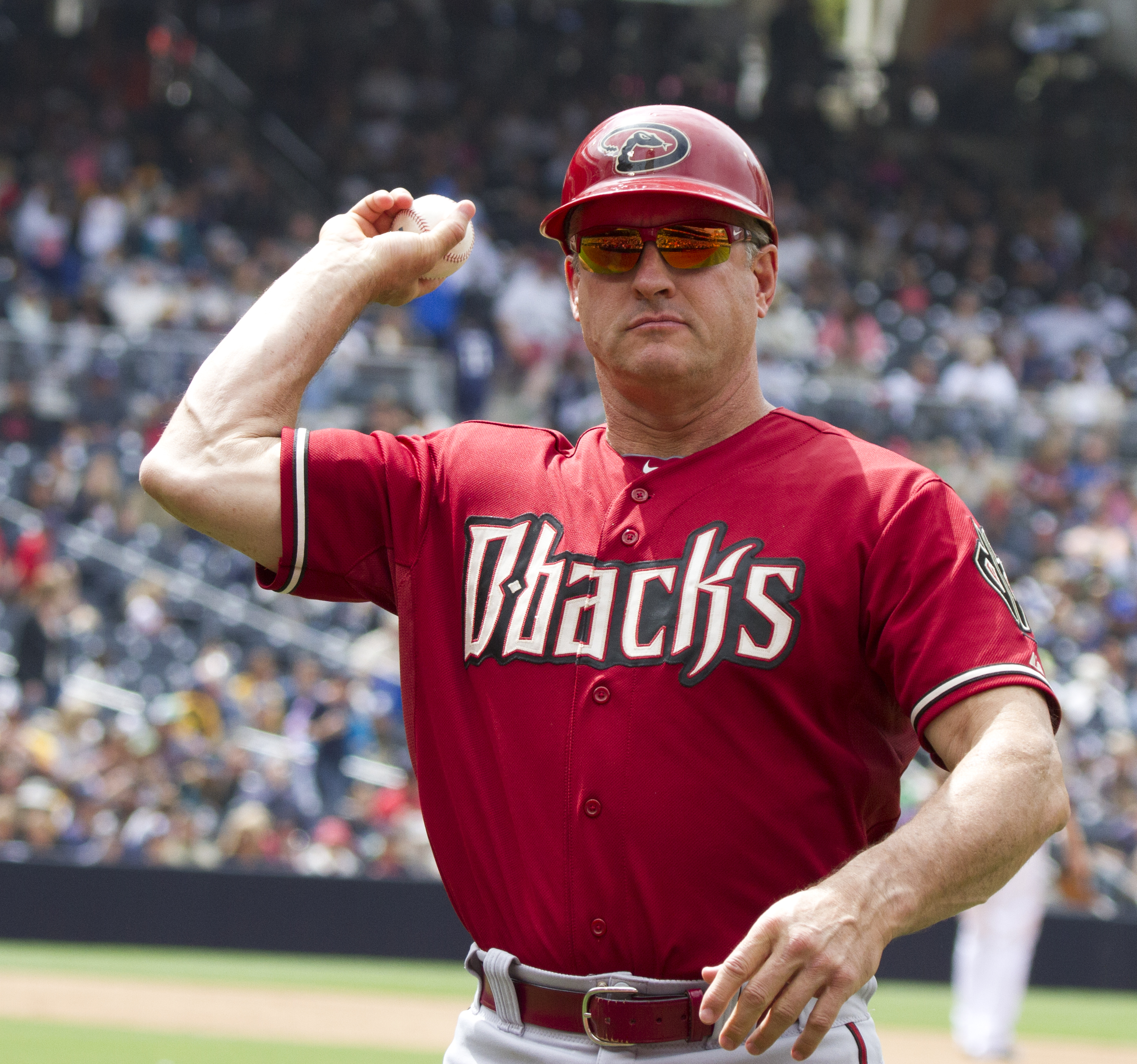 Arizona Diamondbacks first base coach Steve Sax throwing a ball to the crowd